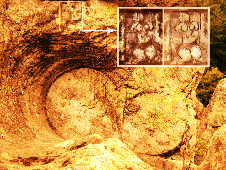 Solar_shrine_Paleokastro_BG_2